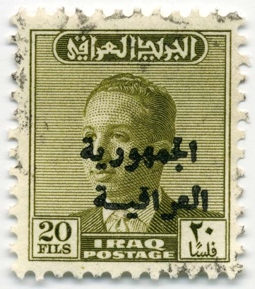 Iraq 20-fils overprint stamp of 1958.